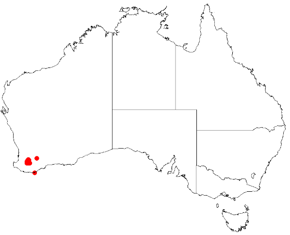 Conostylis drummondii occurrence data from Australasian Virtual Herbarium downloaded 12 May 2017